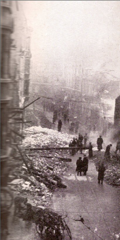 The bombing of Guldsmedegade, Aarhus 1945